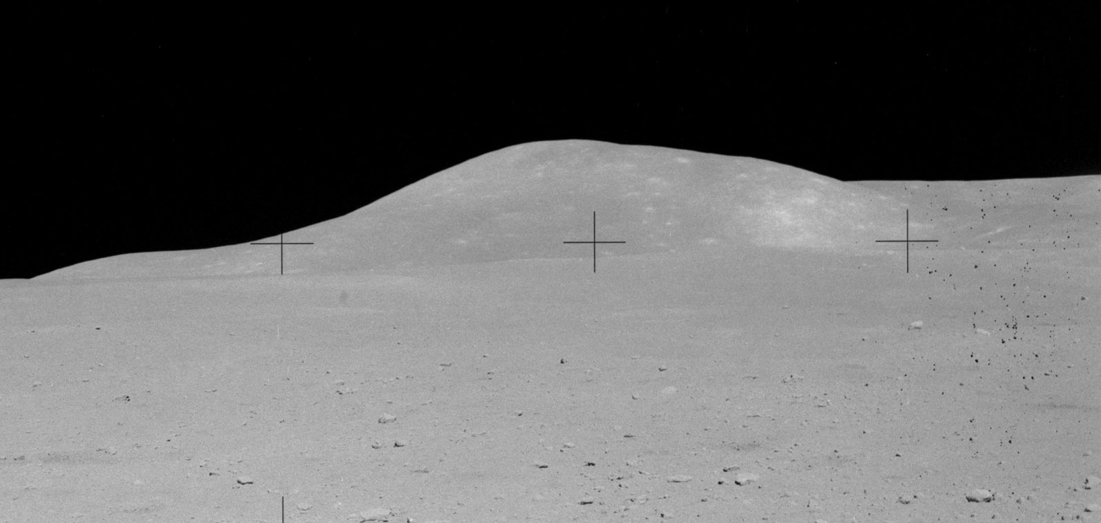 Hill 305, on the moon. Facing northwest from near Apollo 15 landing site.